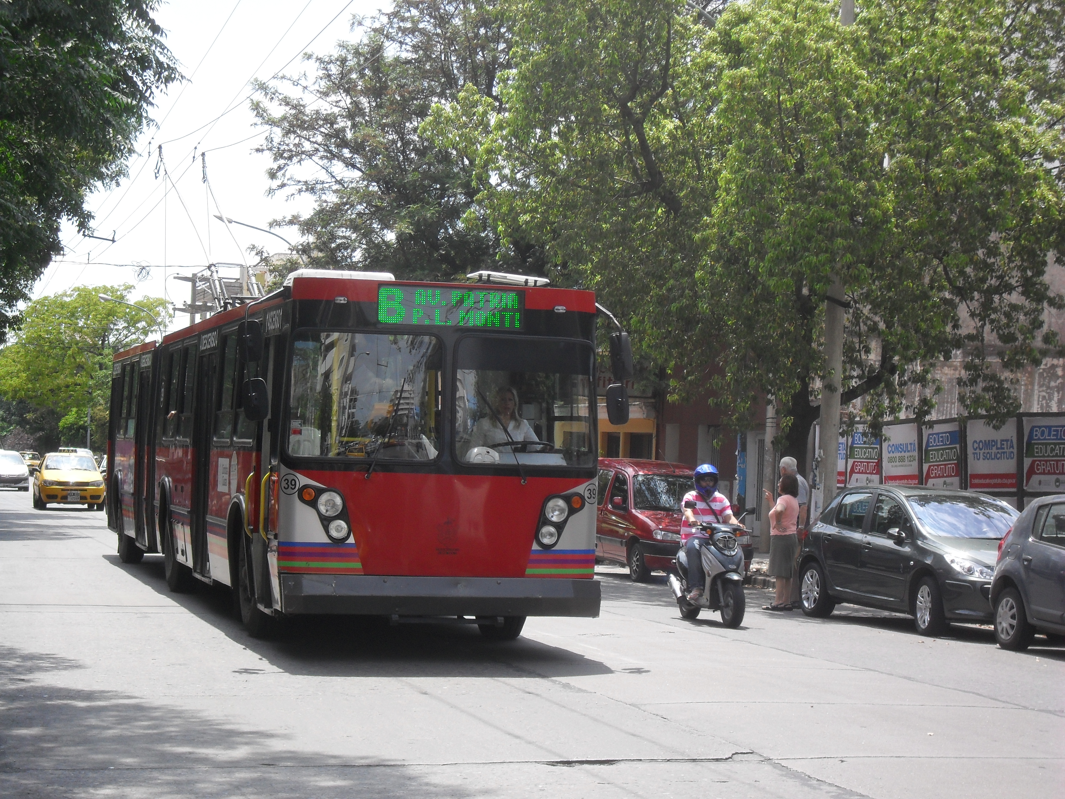 A ZIU-10 (also known as ZIU-683) trolleybus in service on route B in Córdoba, Argentina.